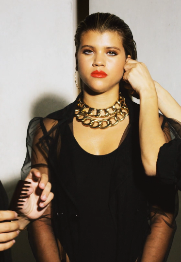 Image of model Sofia Richie at photoshoot